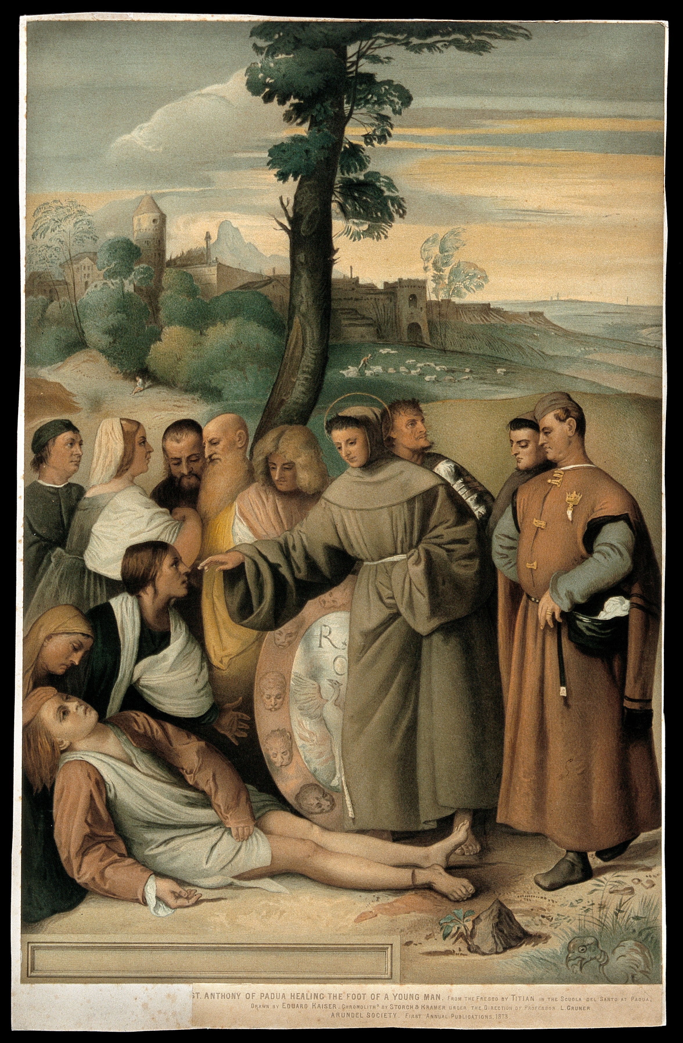 Saint Antony of Padua. Colour lithograph, 1873, by L. Gruner after E. Kaiser after Titian. Iconographic Collections